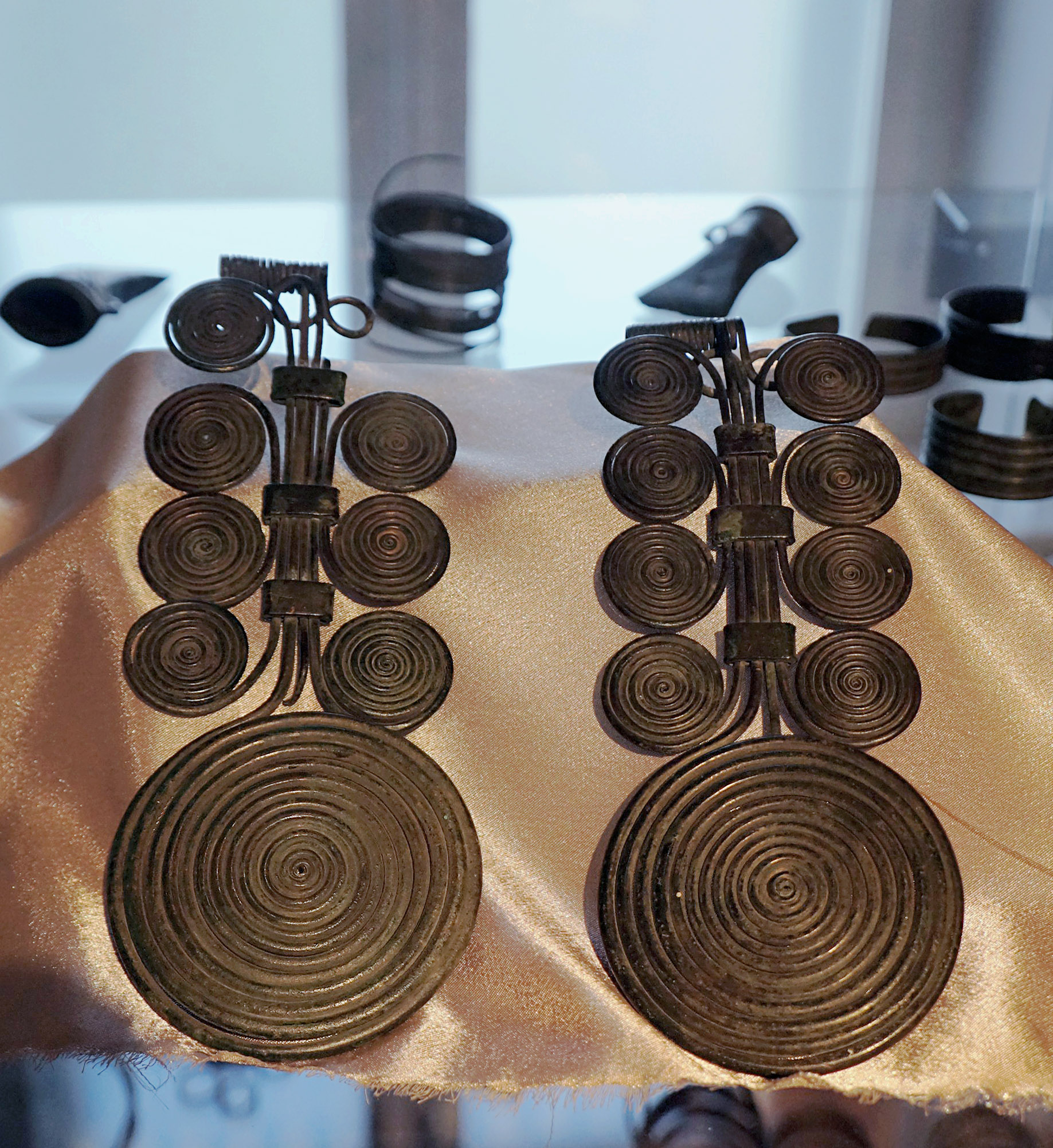 Bronze Age cabinet 02, museum Zrenjanin: Hoard of Sečanj – Haberdashery fibulas, Hoard of Sečanj, Bronze Age Српски (ћирилица): Посаментеријске фибуле, остава Сечањ